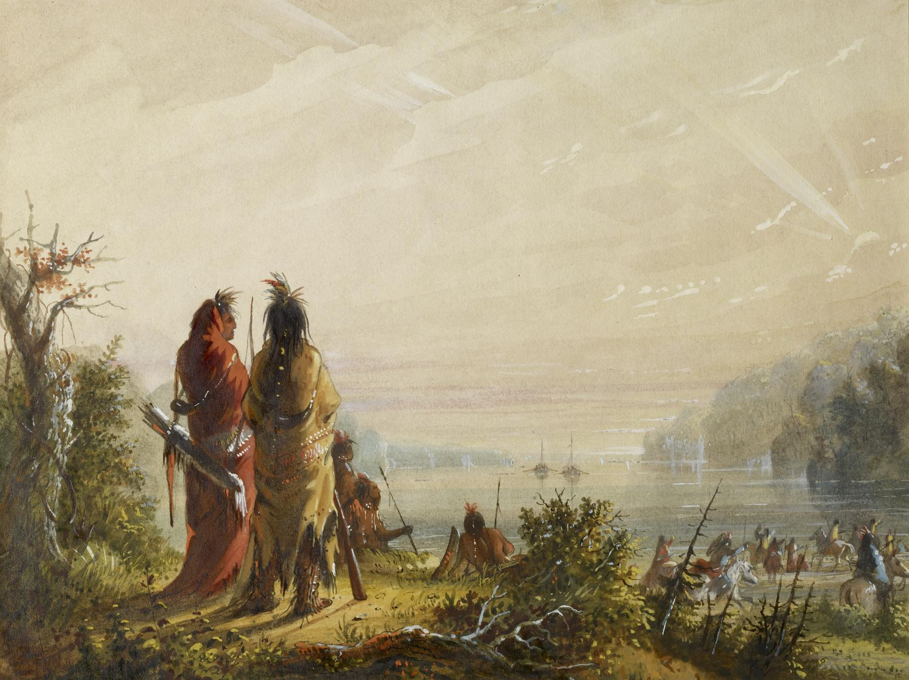 In 1837, Baltimore artist Alfred Jacob Miller journeyed to the frontier with the American Fur Company. Along the way, he made many sketches of Native Americans, concentrating particularly on their relationship with the fur trade. Miller commented on the conflict between the traders and the Shoshonee: "In passing down the Platte, the American Fur Comp[any]'s boats are constantly liable to attack from hostile Indians prowling on the banks . . . it is a dark day for the 'voyageurs' if the boat should run aground. . . ."